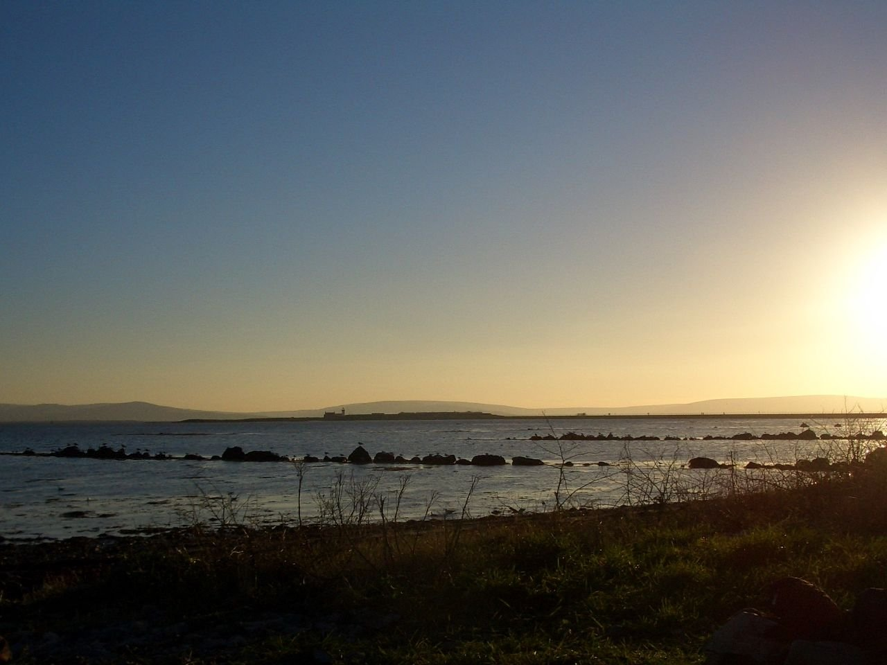 Taken just after Christmas on an exceptionally spectacular evening.